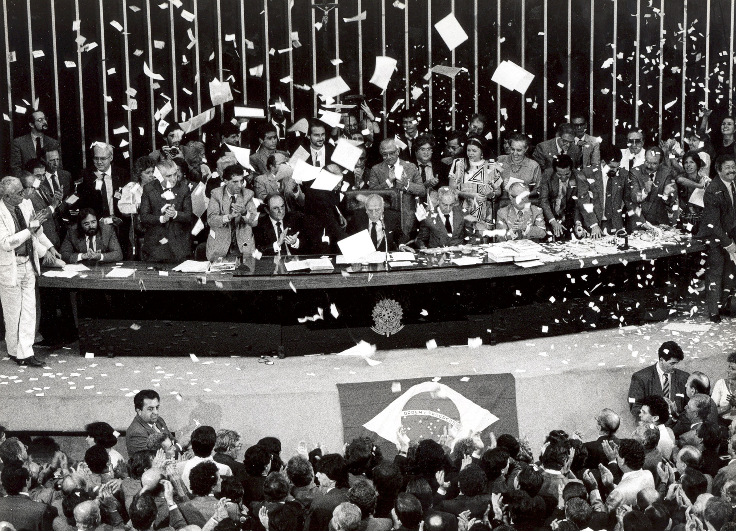 Parliamentarians in the Chamber of Deputies of the National Congress, in Brasília, commemorating the promulgation of the Constitution of Brazil, in 1988.